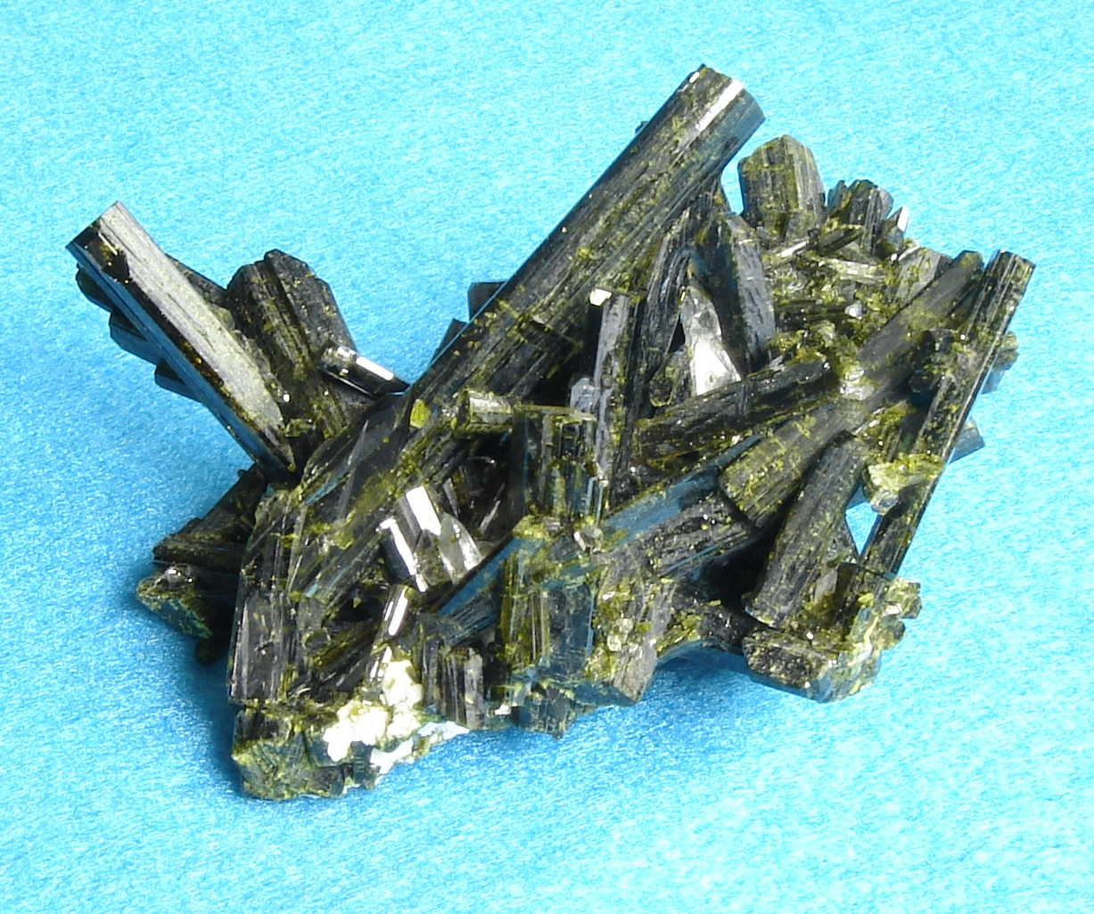 Epidote; Green Epidote crystals Origin: Capelinha Mine, Minas Gerais, Brazil